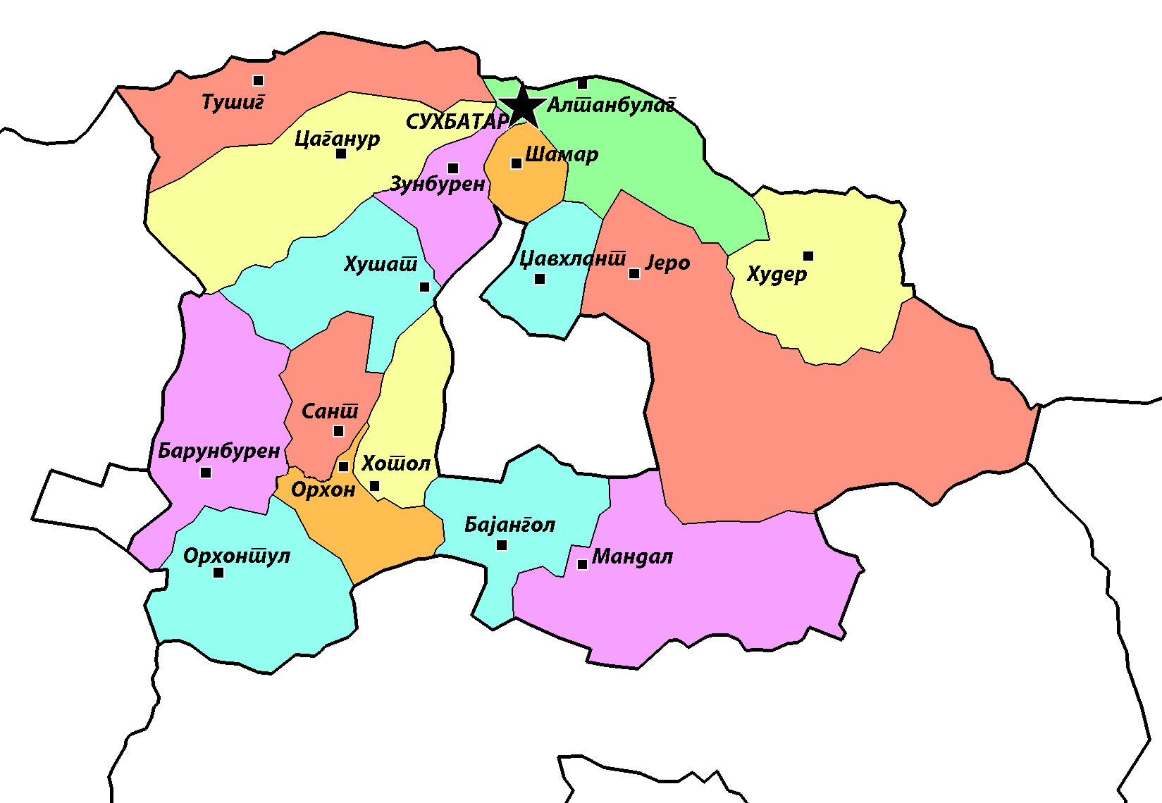 Translated map of Selenge Sum into Macedonian language